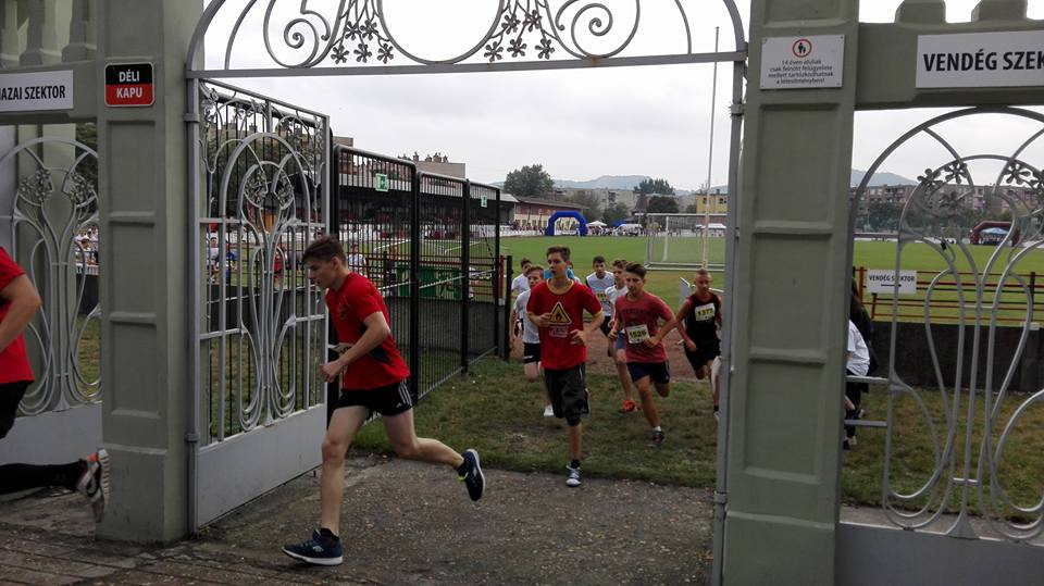 The stadium is the start and finish place of the running race.